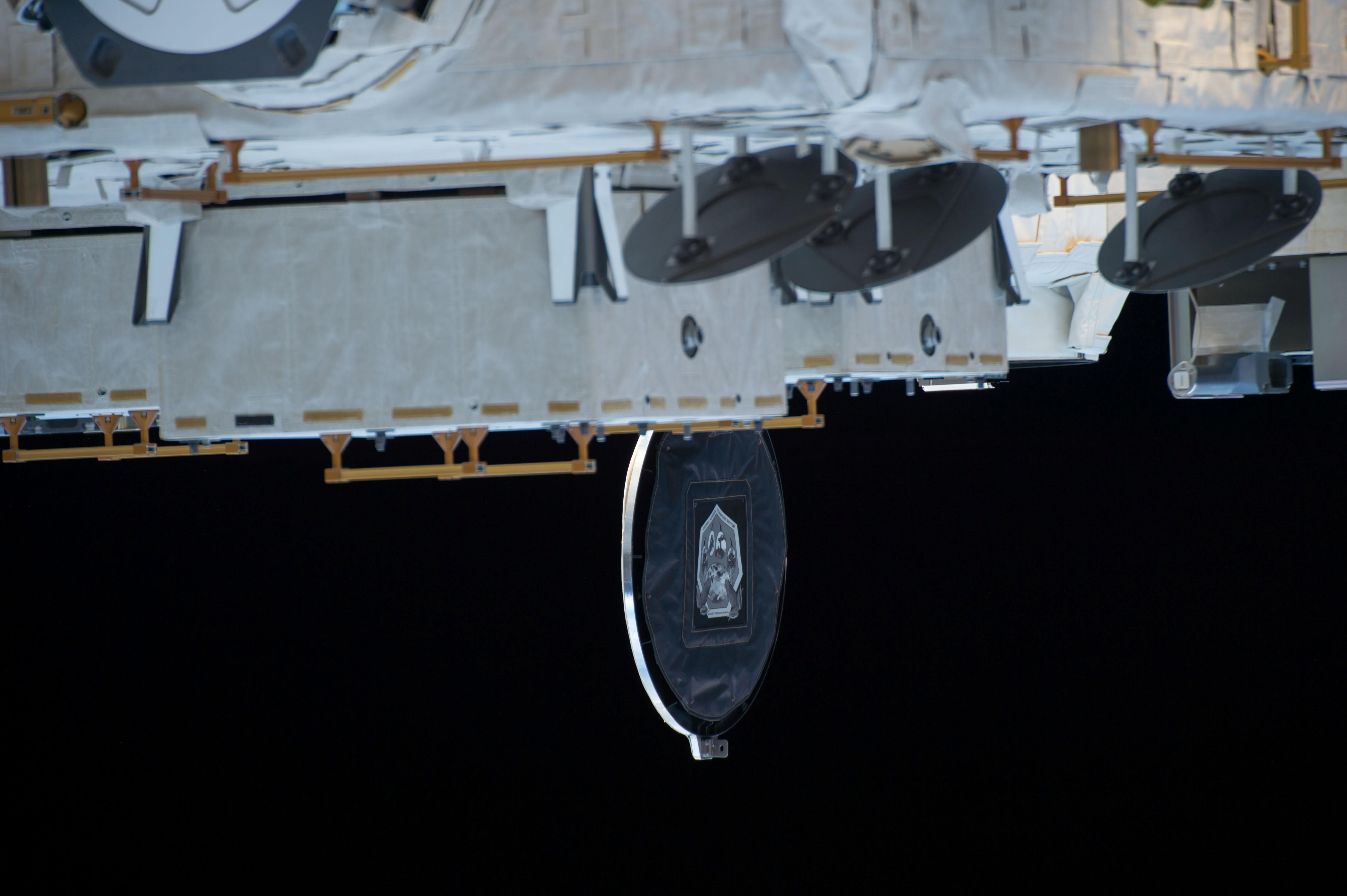 Cloud Aerosol Transport System when it's opened on the ISS